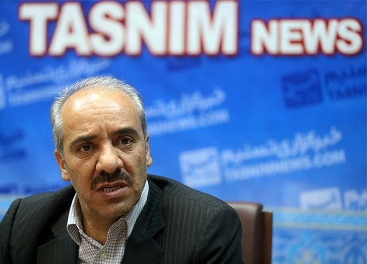 Khosrow Ghamari